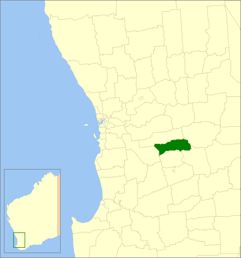 Description=Location of the Local Government Area in Western Australia